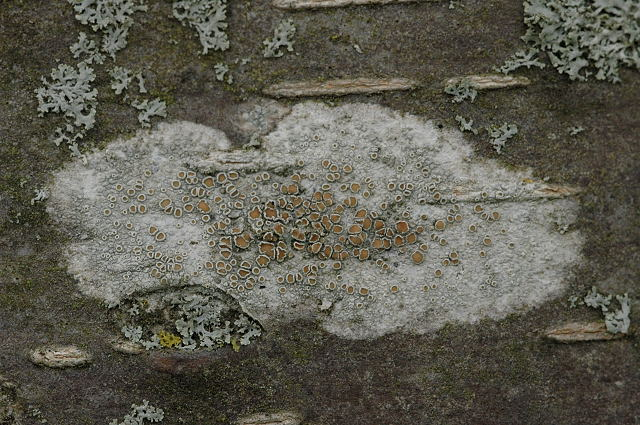 Picture taken in Commanster, Belgian High Ardennes . Species: Lecanora allophanaAlso identified as Lecanora chlarotera